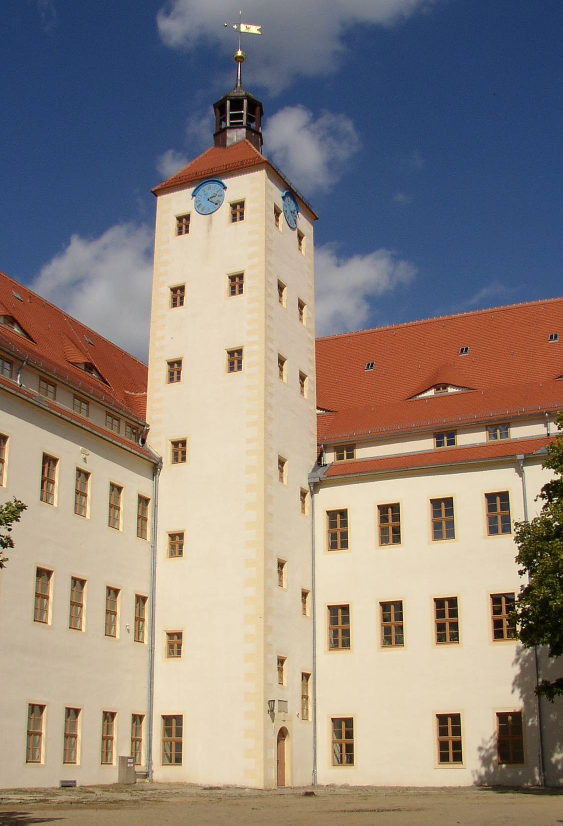 Castle in Pretzsch in Saxony-Anhalt, Germany